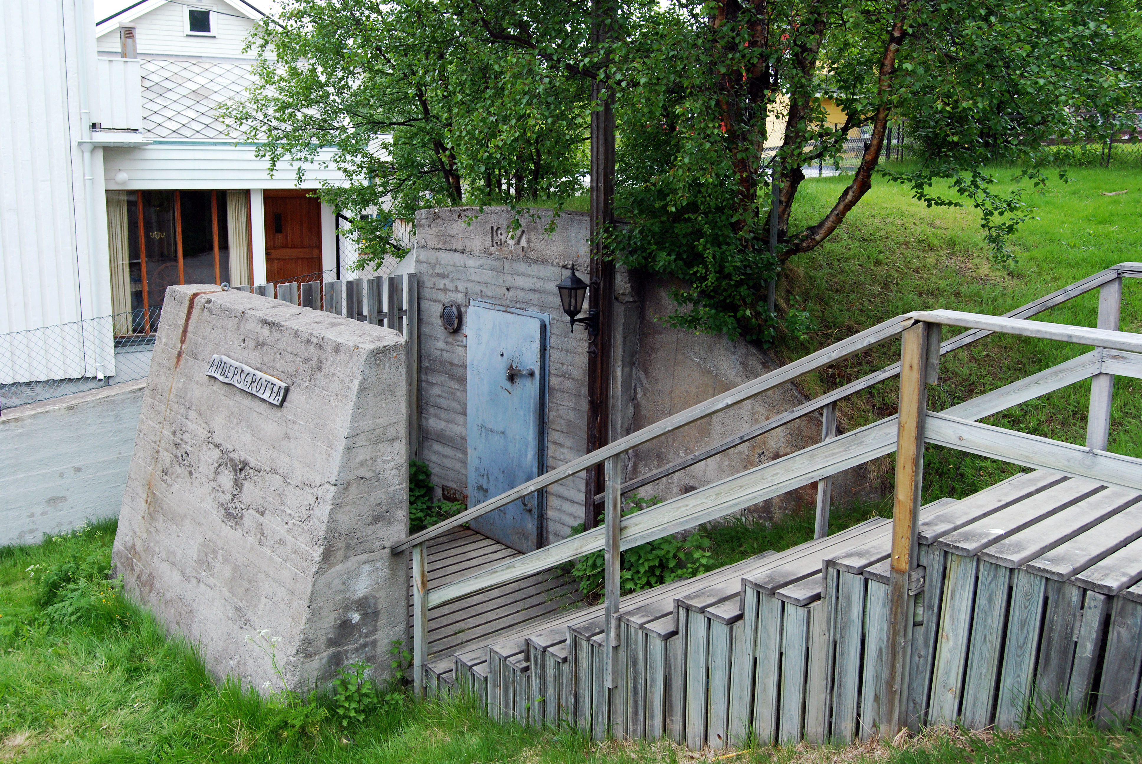 Andersgrotta is a civilian bombshelter from WW2.